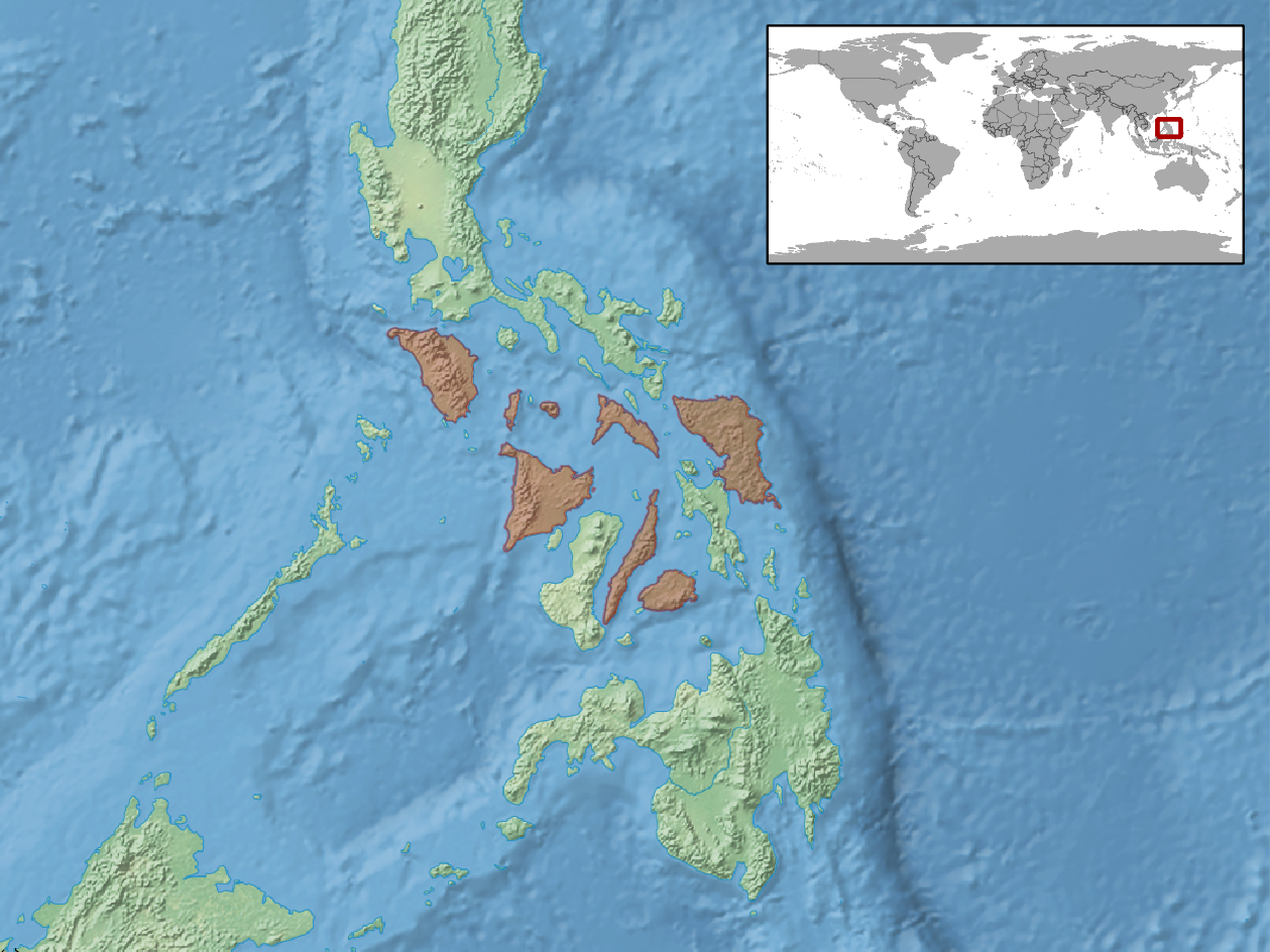 geographic distribution of Lepidodactylus planicaudus (Native: Philippines)